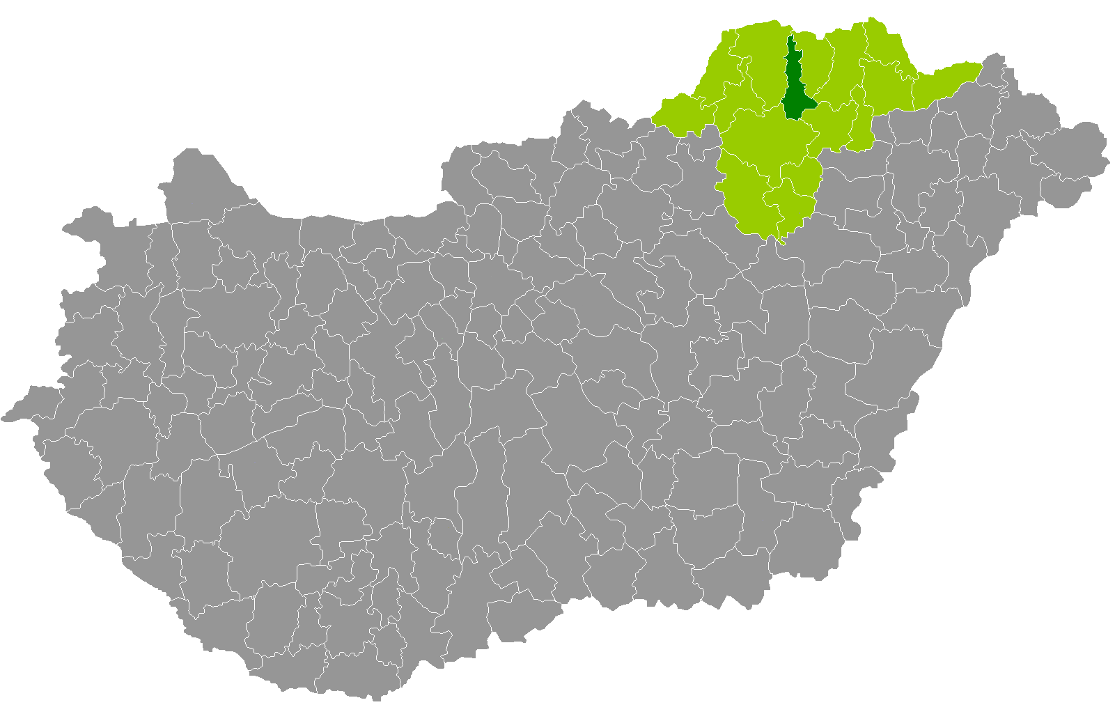 Location of Szikszó District, Borsod-Abaúj-Zemplén, Hungary